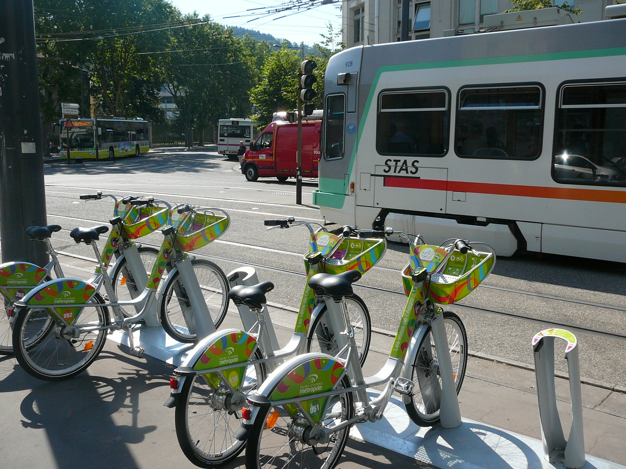 The intermodal connexion between railway, bus, tramway and VéliVert bicycles is seamless because the whole system is ran by STAS, the local public transportation company.